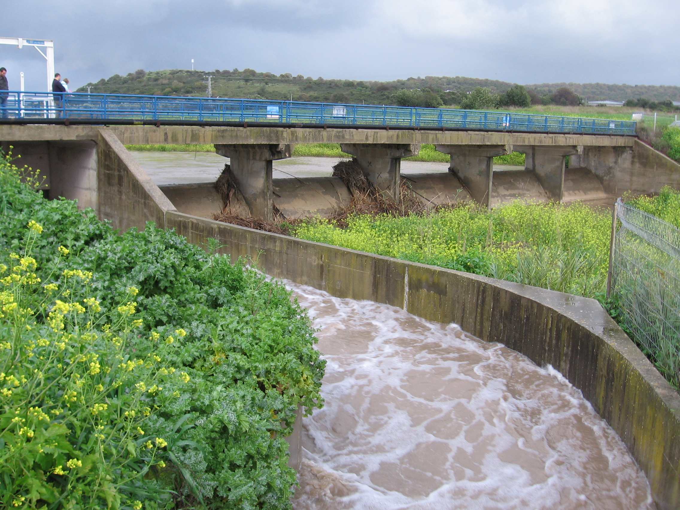 Taninim stream in Israel is diverted during high flow to enrich the coastal aquifer